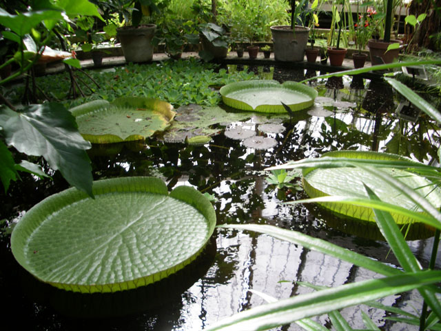 Giant water lilies (Victoria ) in the greenhouses of the University of Copenhagen Botanical Garden in Copenhagen, Denmark